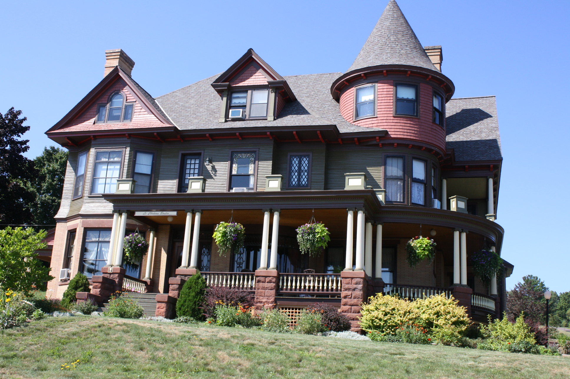 The Frank Boutin, Jr. House, listed on the National Register of Historic Places.